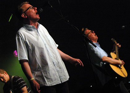 Musicians